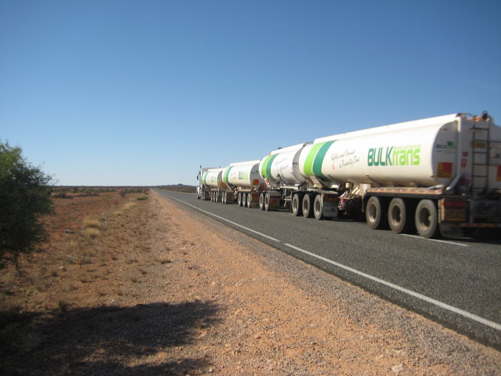 bloody hell, road trains are really immense and impressive. This one has 3 trailers and 19 axes spread over about 50m of length. The real kings of the road!